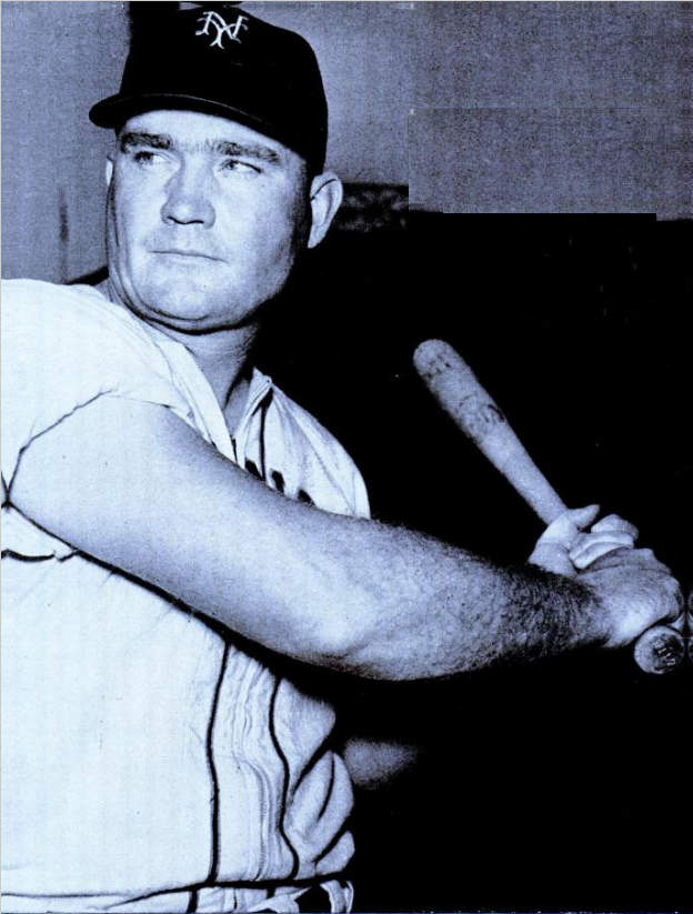 An image of Major League Baseball Hall of Fame first baseman Johnny Mize.